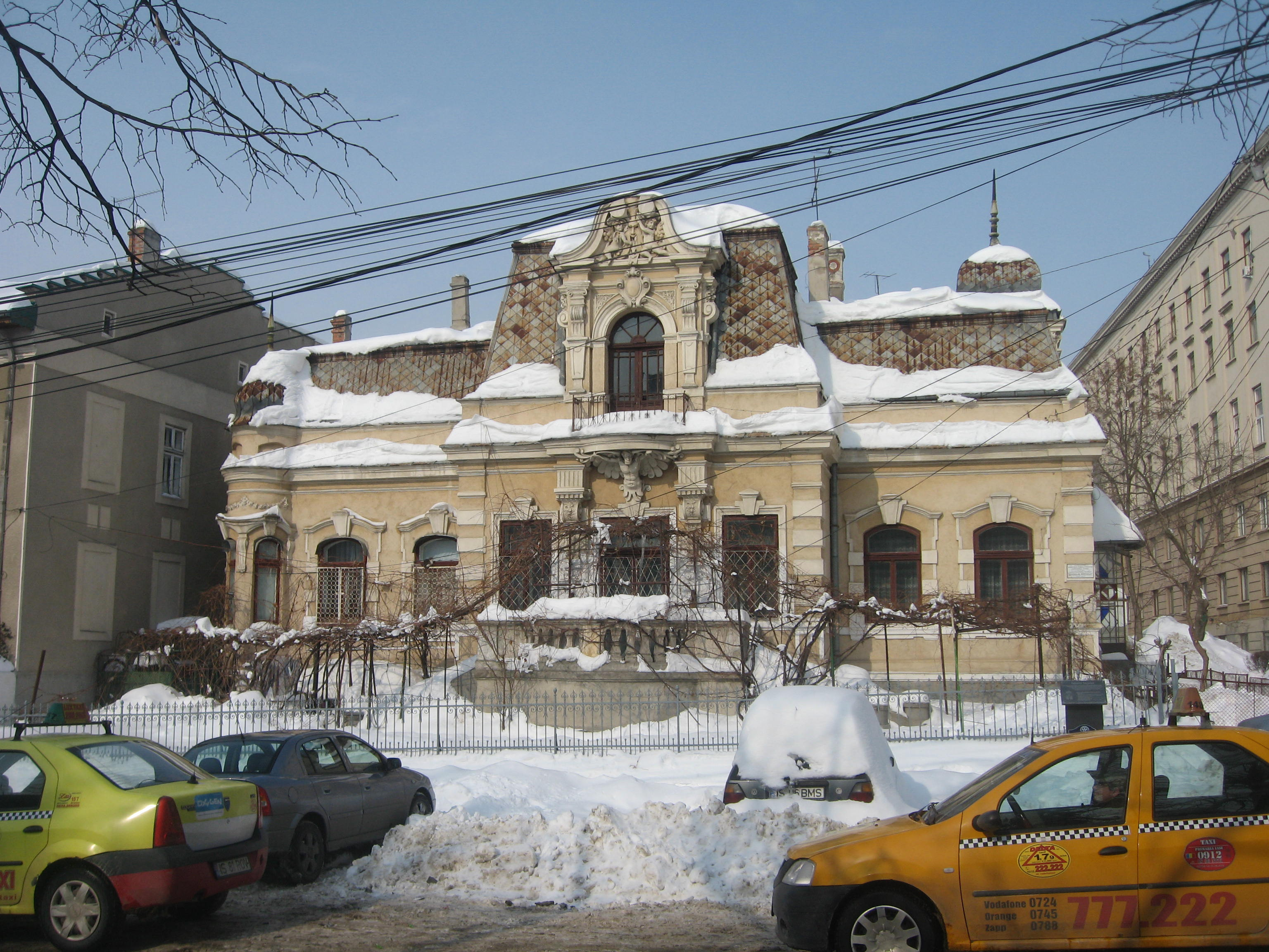 General Berthelot's House in Iaşi (Romania), an historical monument building from 19th century